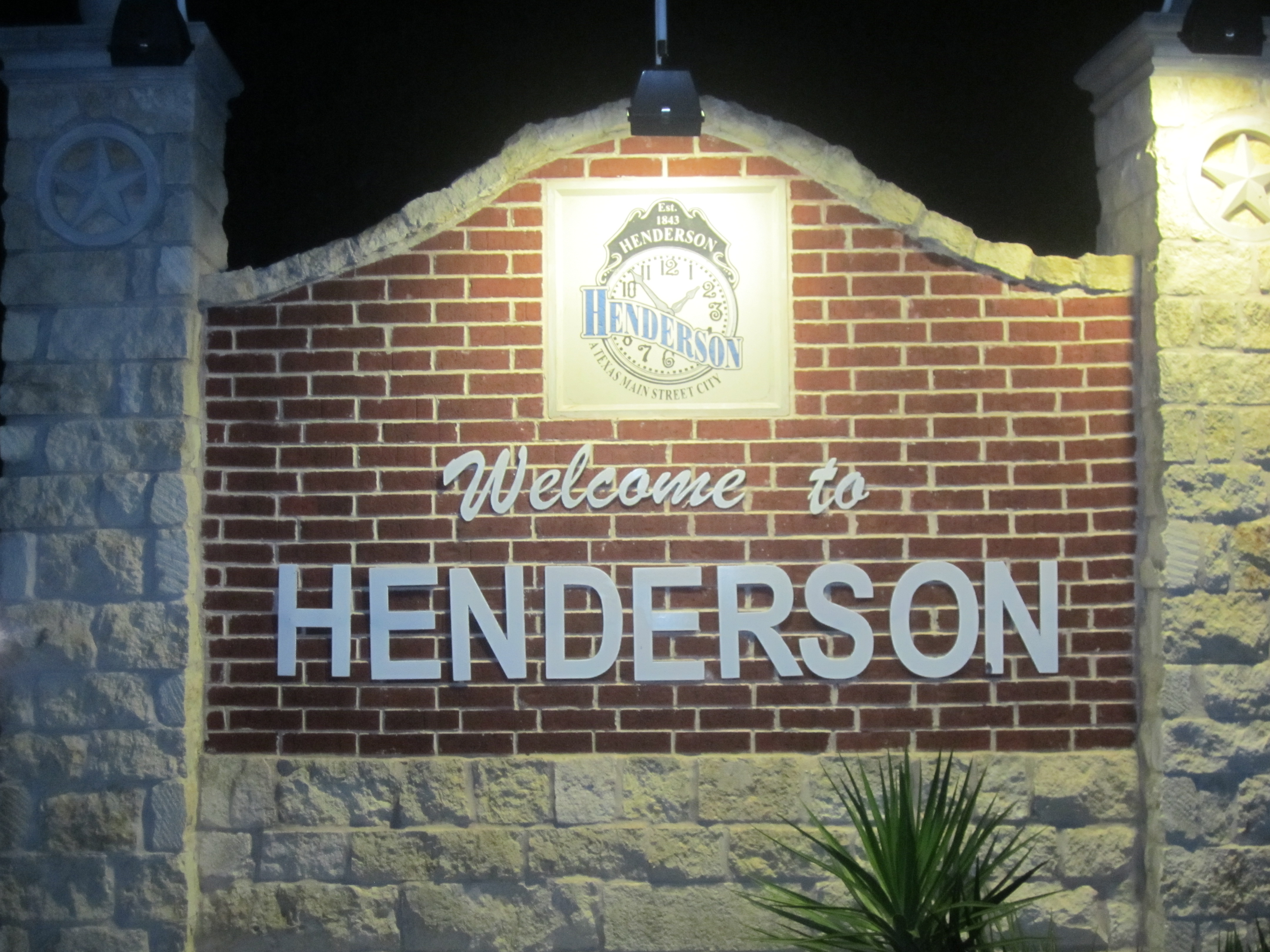 I took night-time photo of Henderson, TX, sign with Canon camera.